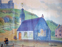 First St. Peter's Episcopal Church building, Albany, NY, now in USA.